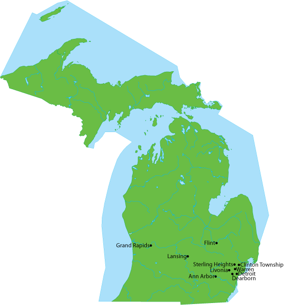 Map showing ten largest municipalities in Michigan.